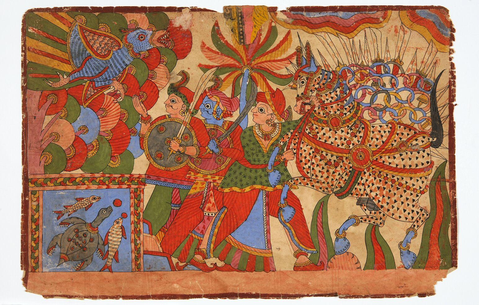 Maharashtra state Style or Ware: Paithan Credit Line: Gift of Walter and Nesta Spink in honor of Forrest McGill On display: no Collection: PAINTING Dimensions: H. 11 1/4 in x W. 16 1/2 in, H. 29.2 cm x W. 41.9 cm Department: SA